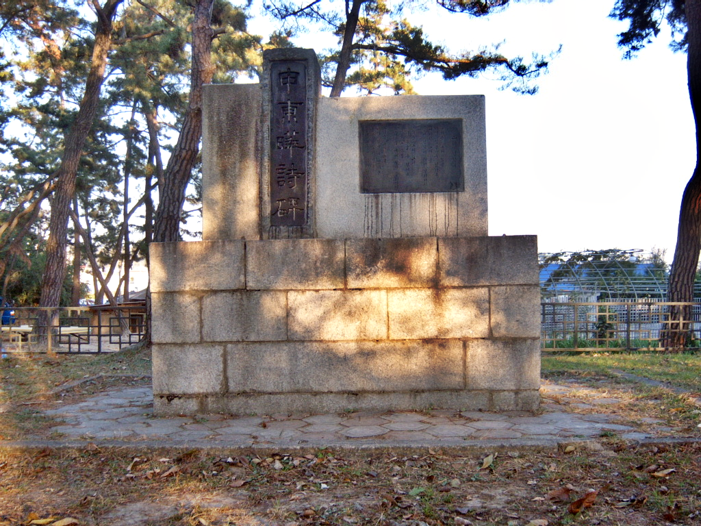 a monument inscribed with a poem of Sin DongYeop